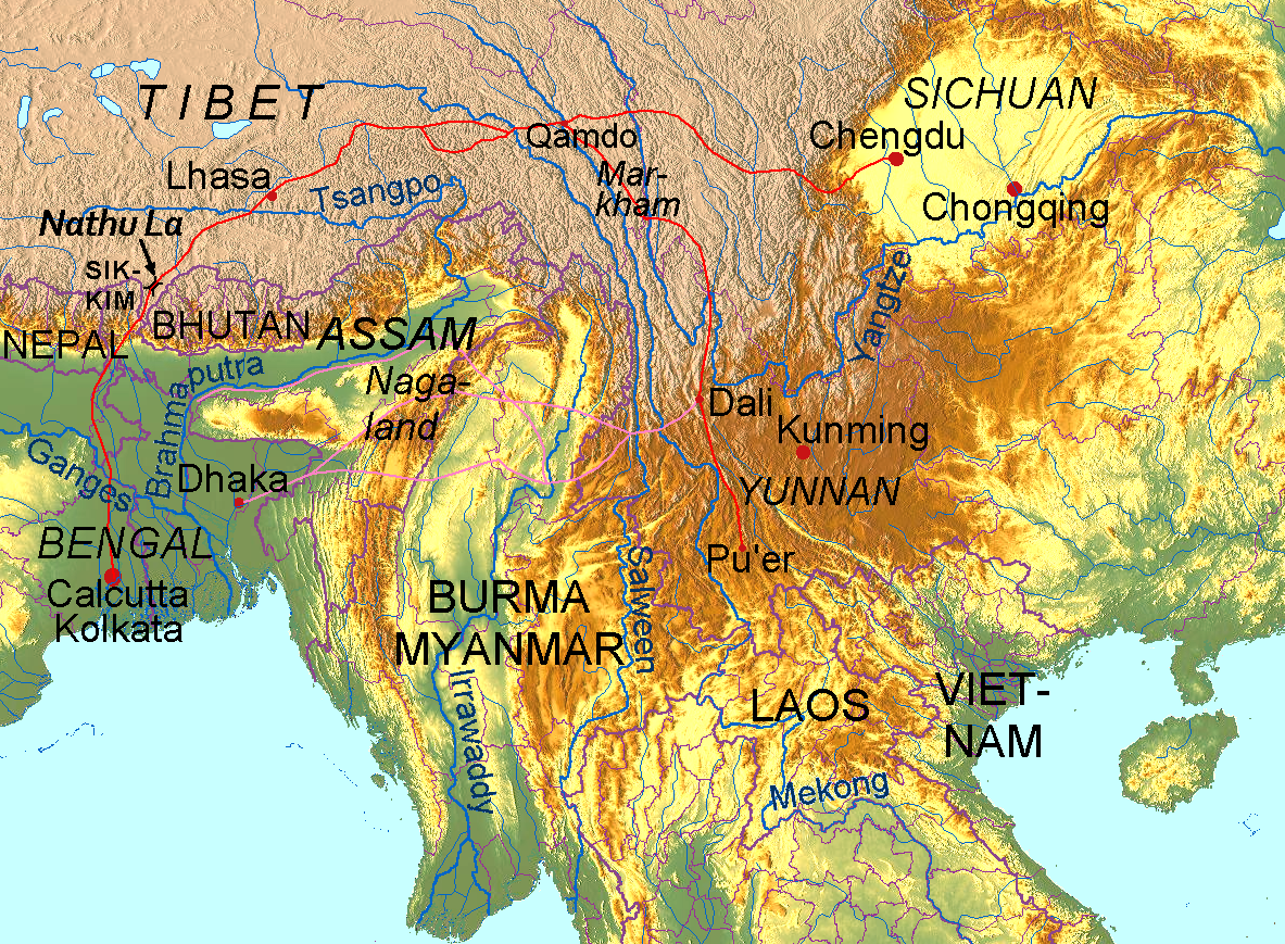 The Tea-Horse-Road, one of the ancient Tea routes, with variants itself. The courses are drawn according to a combination of informations from Chinaexpat: The ancient Tea-Horse-Road, and informations from Andrées Weltatlas from 1880, printed, when the route was a main traderoute, still.